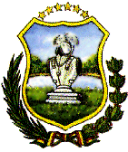 Coats of arms of Tarija